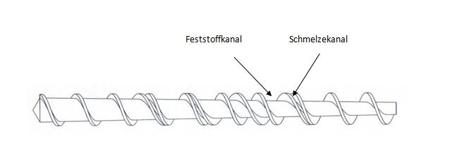 Barriereschnecke